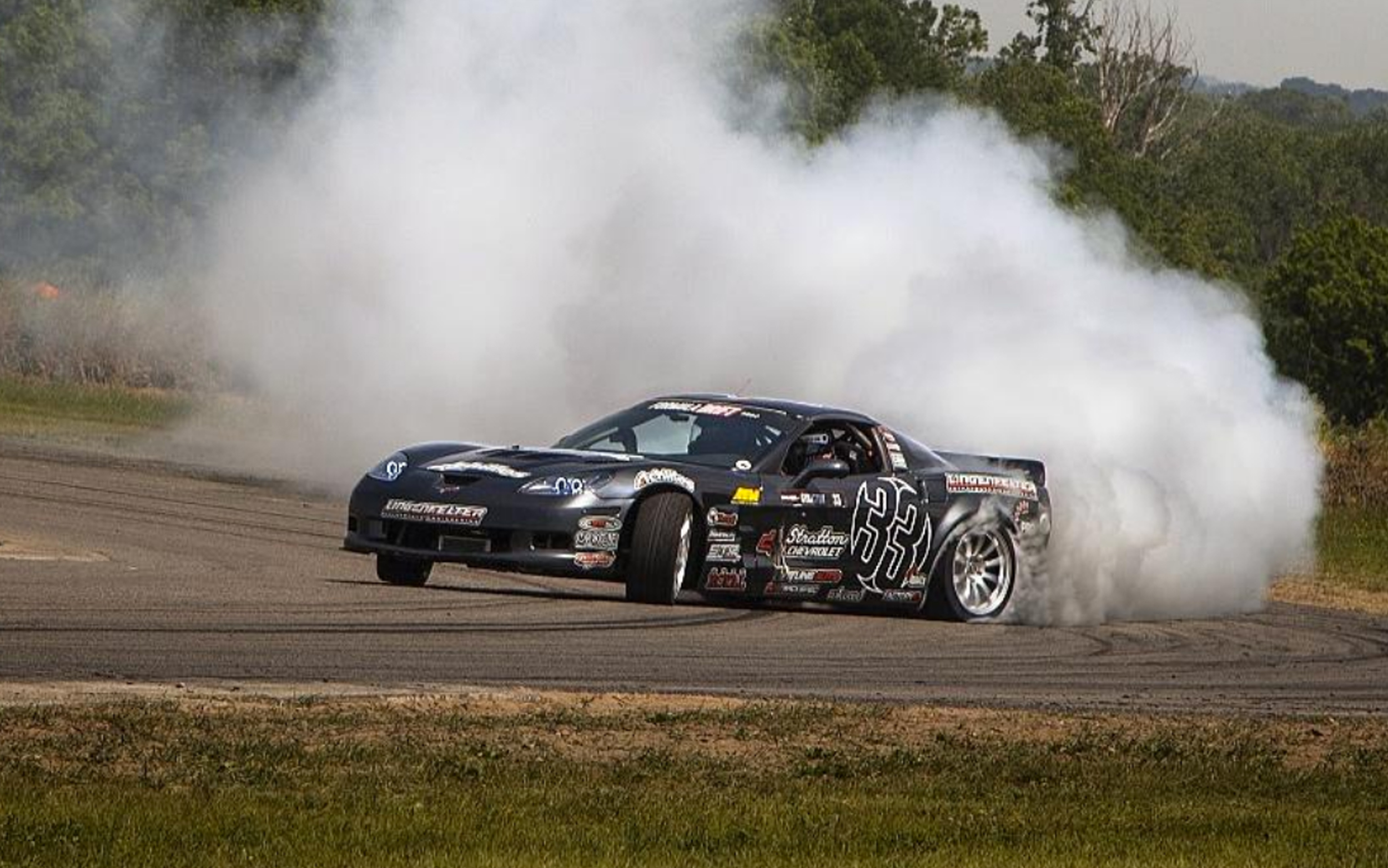 Lingenfelter Corvette Drifting at Gridlife Festival 2017, Gingerman Raceway, New Haven, Michigan.